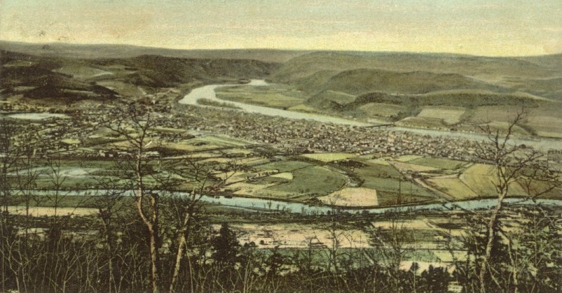 Postcard: Bird's eye-view of Lock Haven, 1911 postmark Description: Caption: "Bird's Eye View of Lock Haven, Pa." Web page: "used, postmarked Lock Haven, Pa. 1911" Source: eBay store Web page This source link has since expired, and it has been removed from eBay.